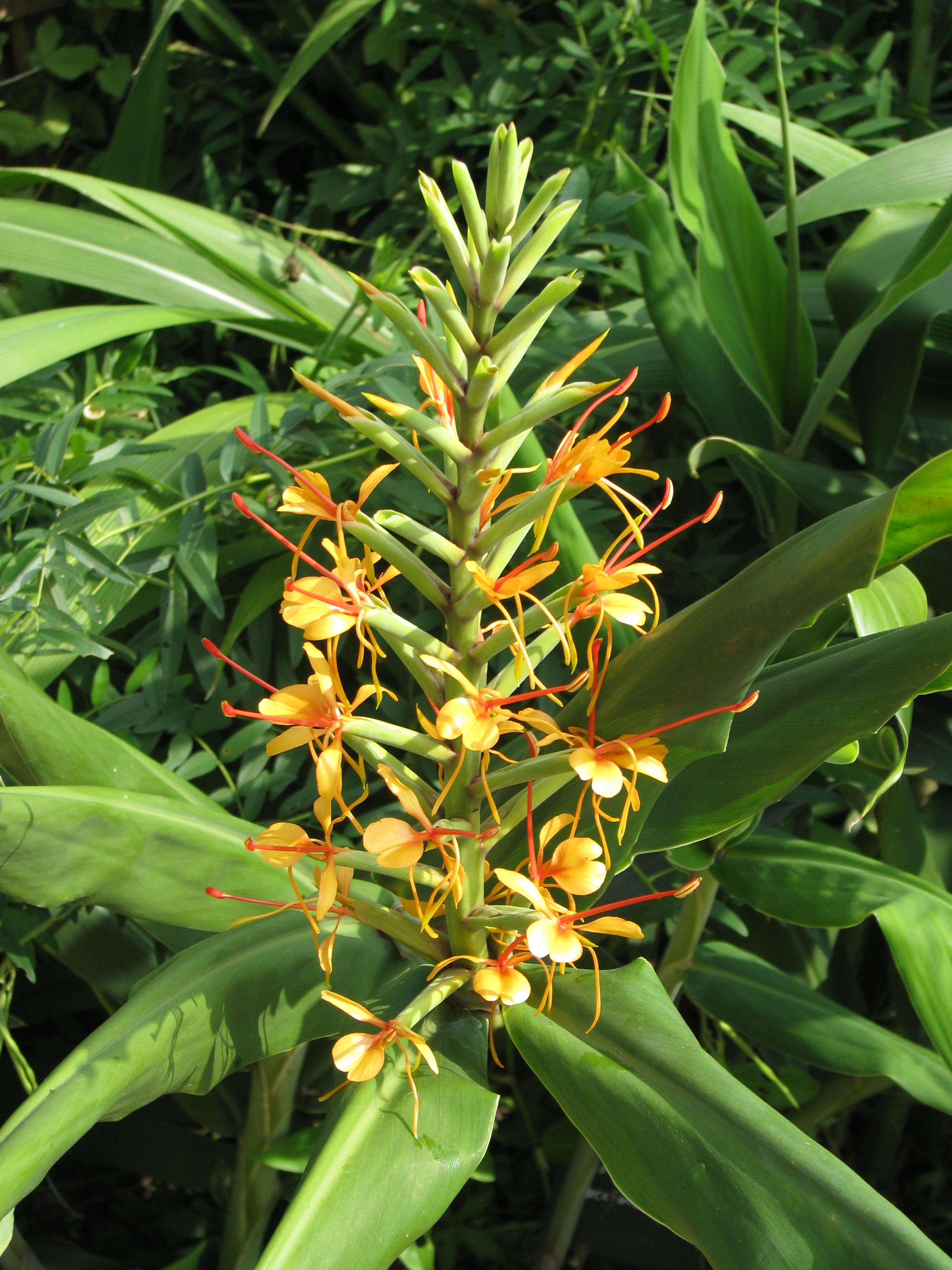 Hedychium coccineum